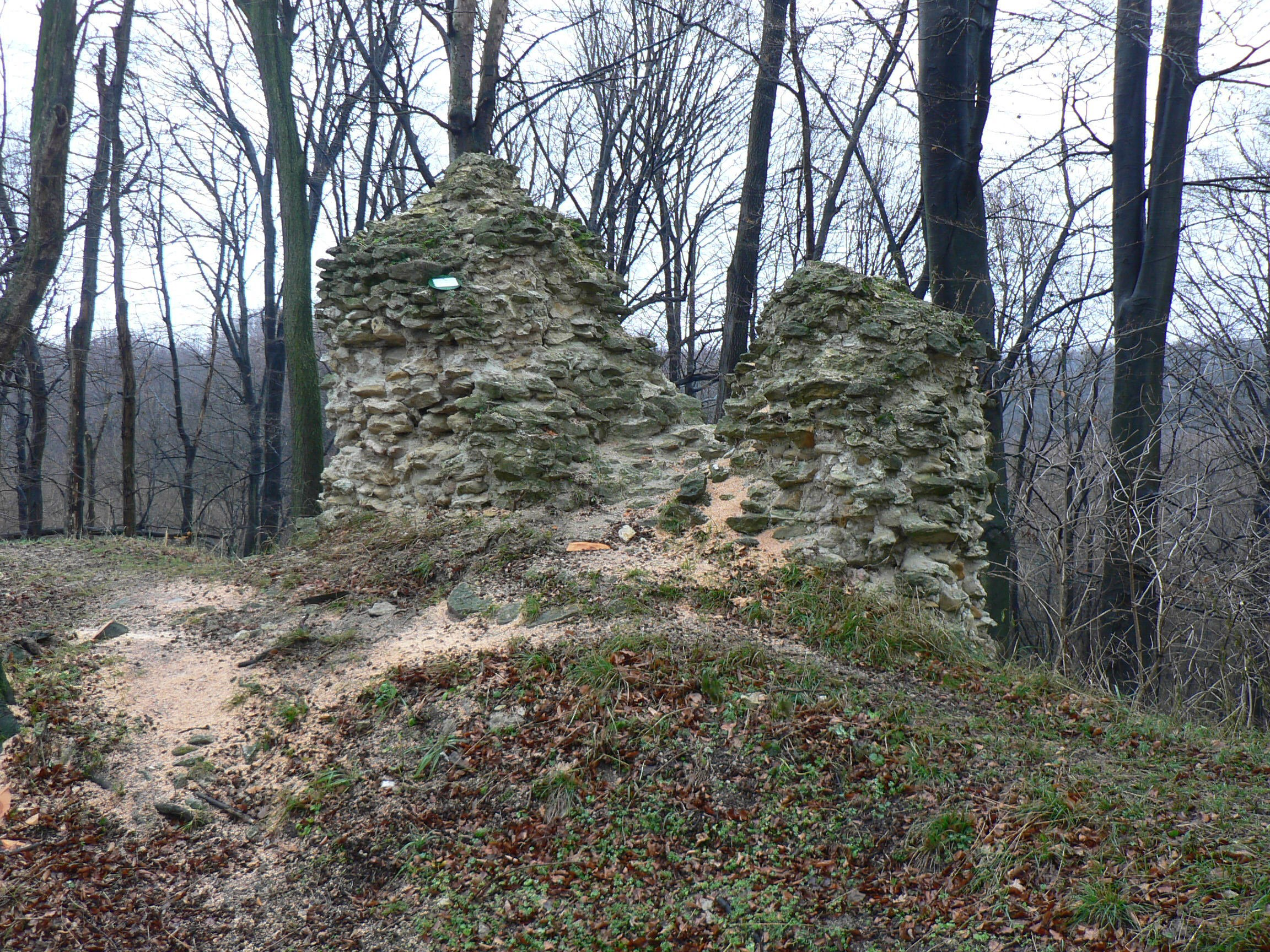 Gerencsérvár 2008 2